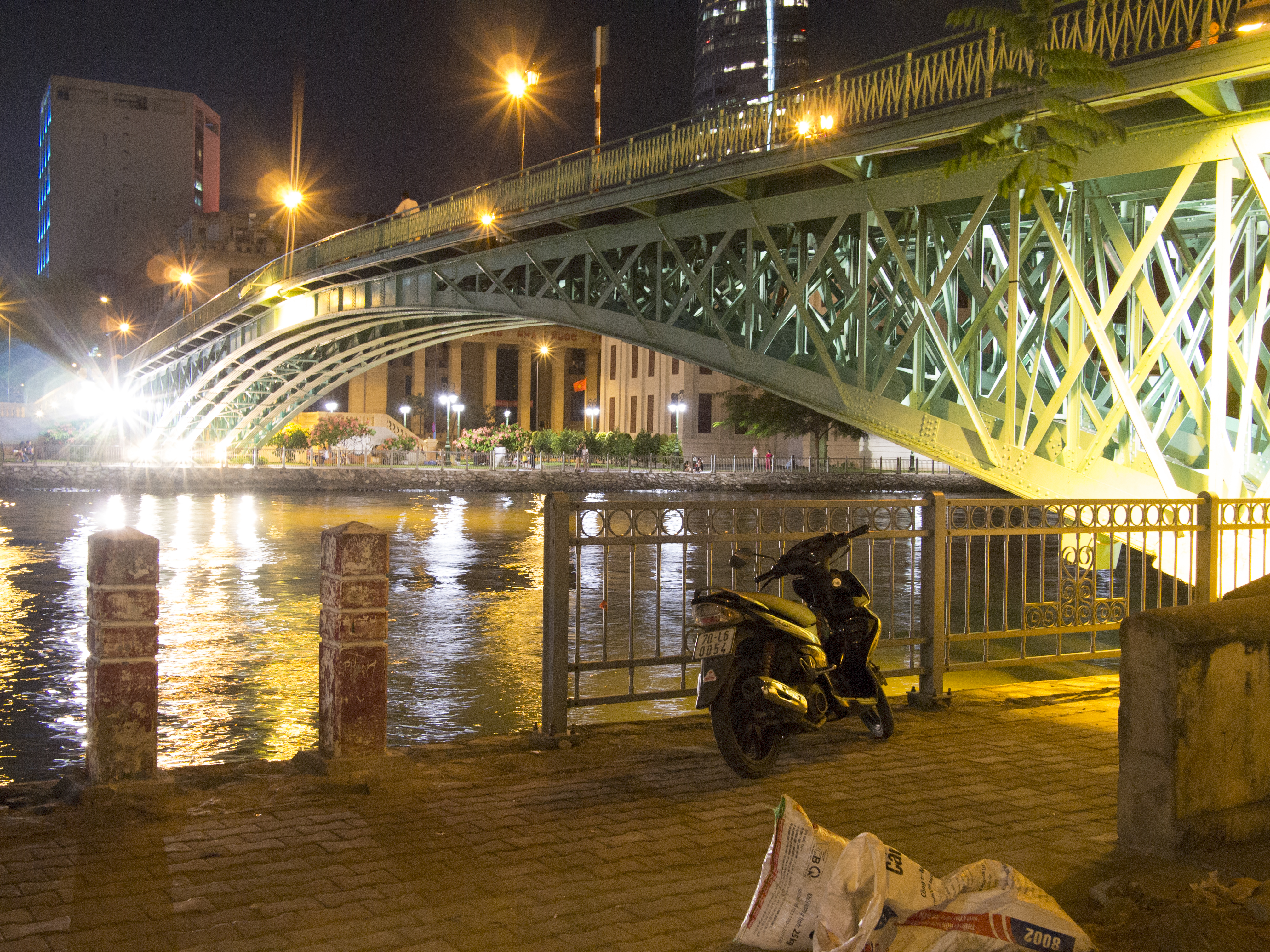 Cầu Mống ở TPHCM